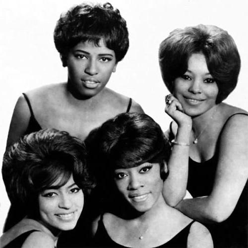 Photo of The Chiffons after they became a 4-girl group.